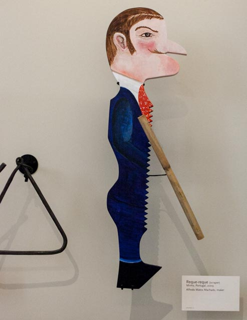 We read about the Musical Instrument Museum (MIM) on Trip Advisor - it was the top rated attraction in Phoenix - and now we can see why! The museum is dedicated to musical instruments from around the world - the collection is fascinating, the exhibits are great and the hands-on displays were fun. We spent almost 5 hours here and still felt rushed - this place is definitely worth a detour. I know nothing about musical instruments so if you happen to know what a particular instrument is, please feel free to comment on it. I tried to include as many labels as possible. The museum is in Phoenix, AZ - we visited it in March 2014.